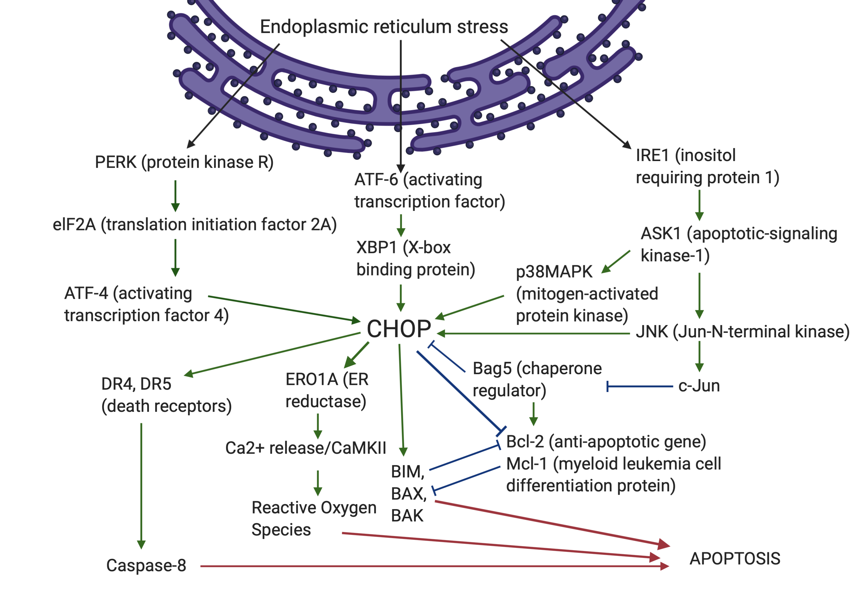 Role of CHOP in the mediation of ER-stress and apoptosis through a variety of regulatory pathways